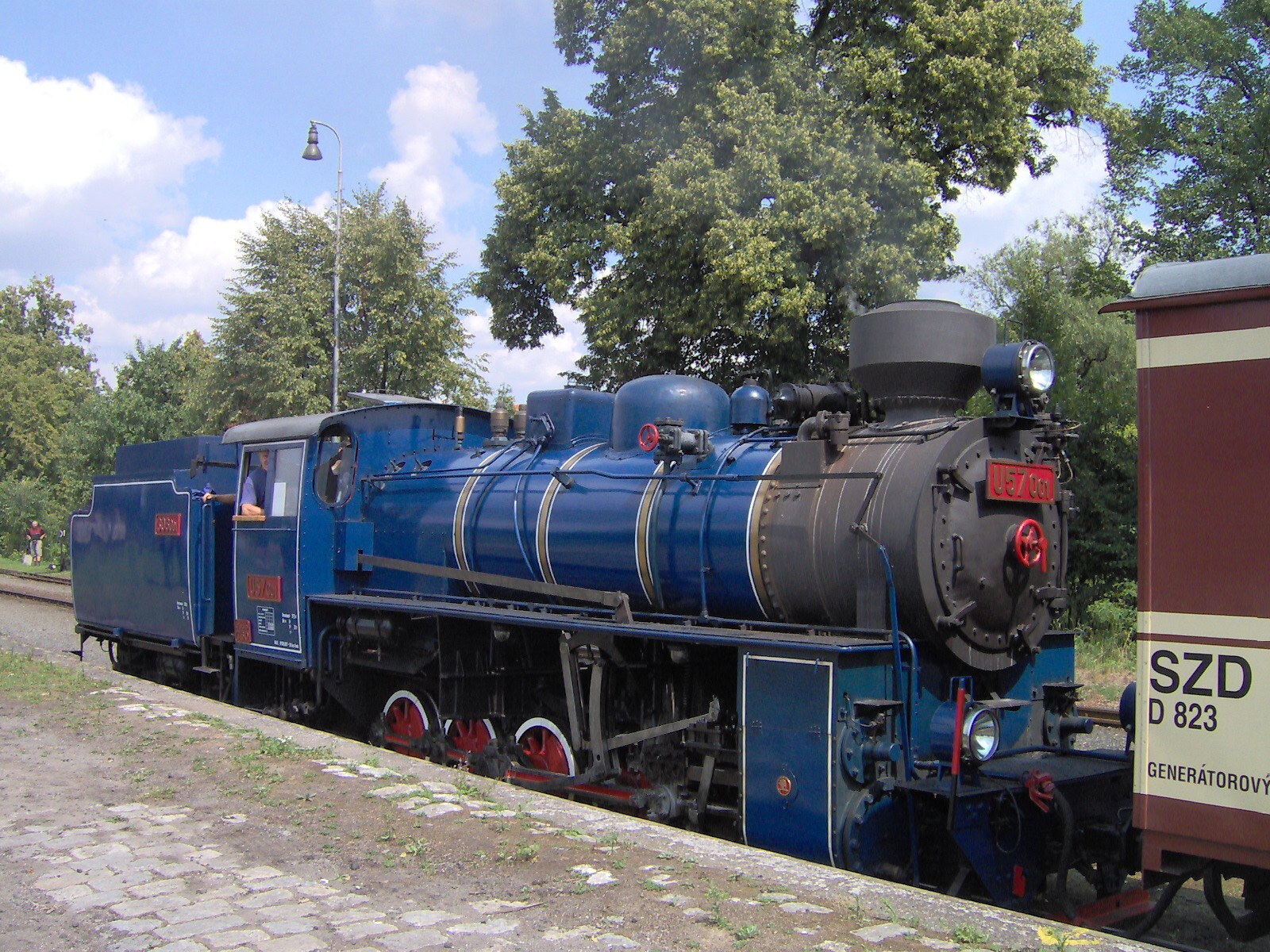 Narrow gauge steam locomotive U 57.001, Osoblaha, Czech Republic